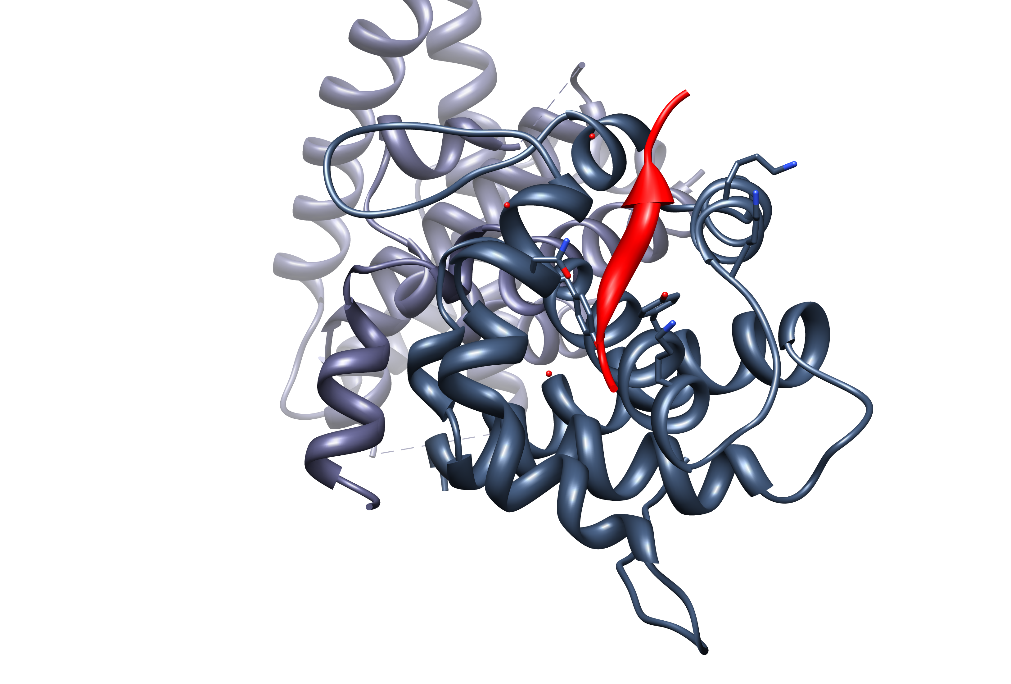 PDB 1gux - Made with Chimera